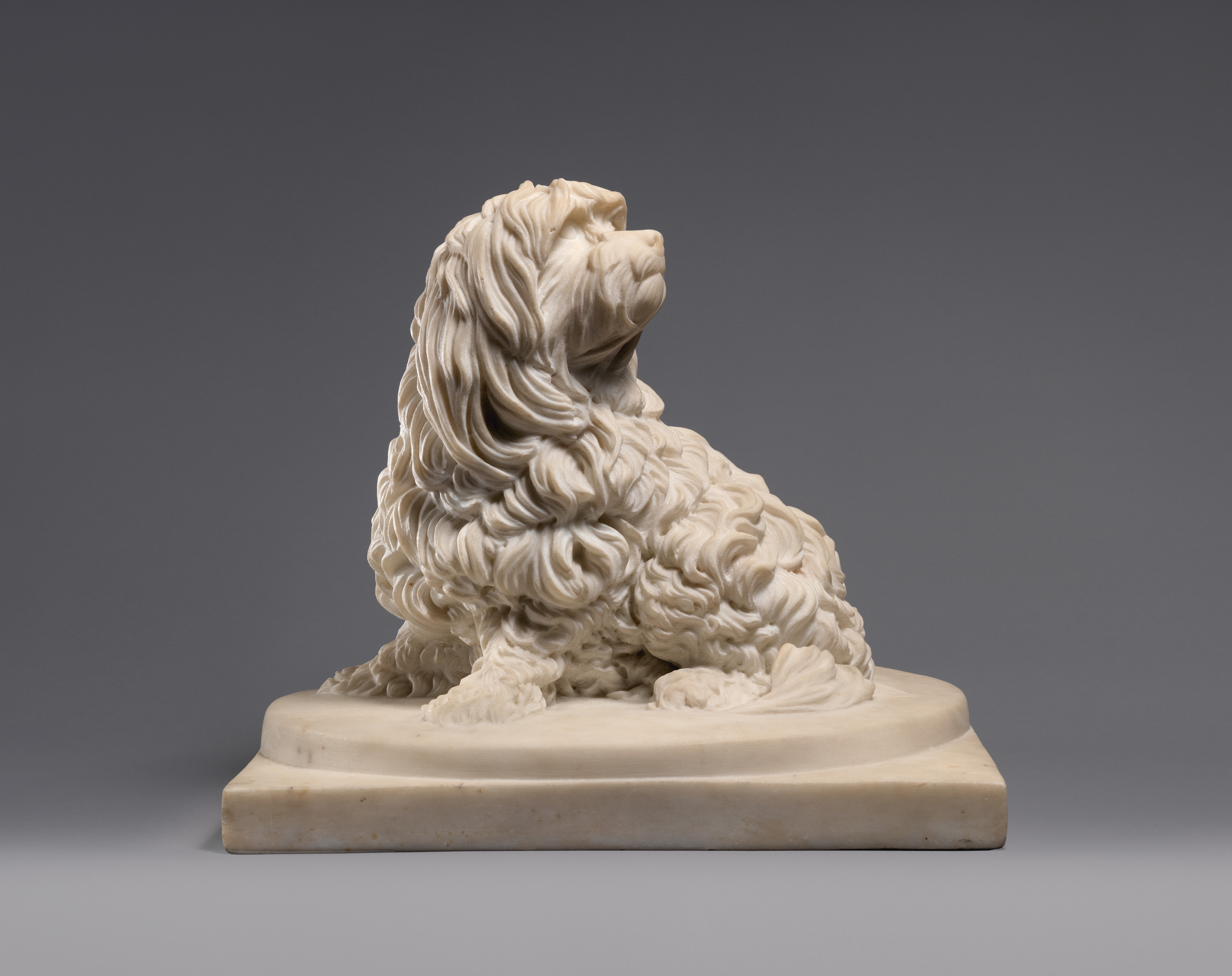 British; Figure; Sculpture